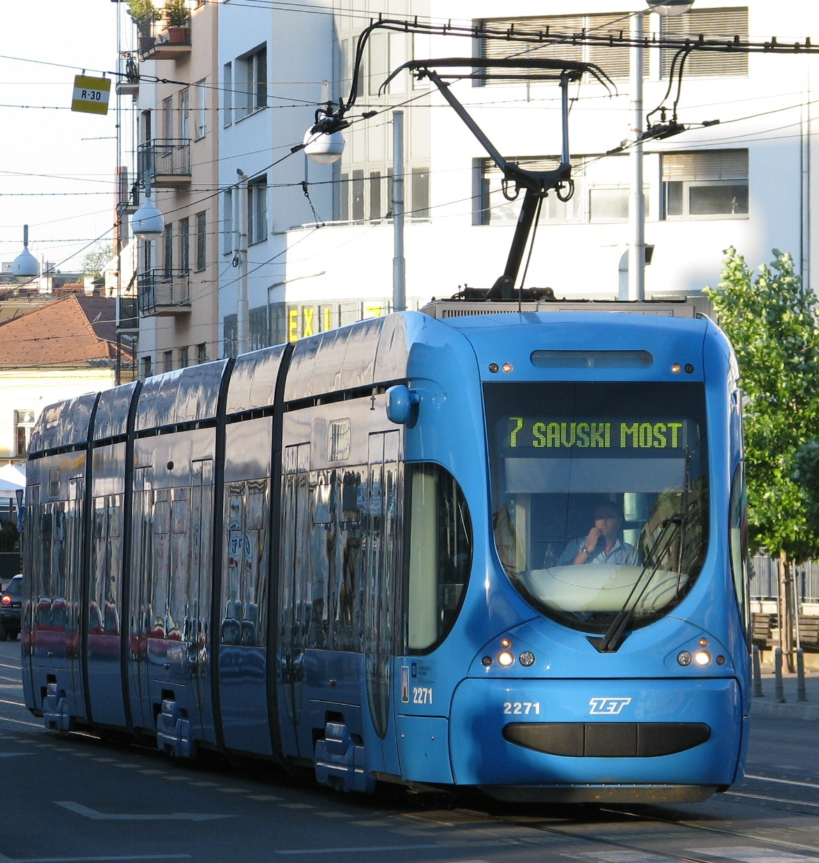 Crotram TMK 2200 tram (#2271) in Zagreb, Croatia. Built 2008.